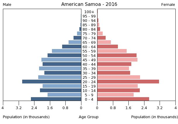 The population pyramid of American Samoa illustrates the age and sex structure of population and may provide insights about political and social stability, as well as economic development. The population is distributed along the horizontal axis, with males shown on the left and females on the right. The male and female populations are broken down into 5-year age groups represented as horizontal bars along the vertical axis, with the youngest age groups at the bottom and the oldest at the top. The shape of the population pyramid gradually evolves over time based on fertility, mortality, and international migration trends.